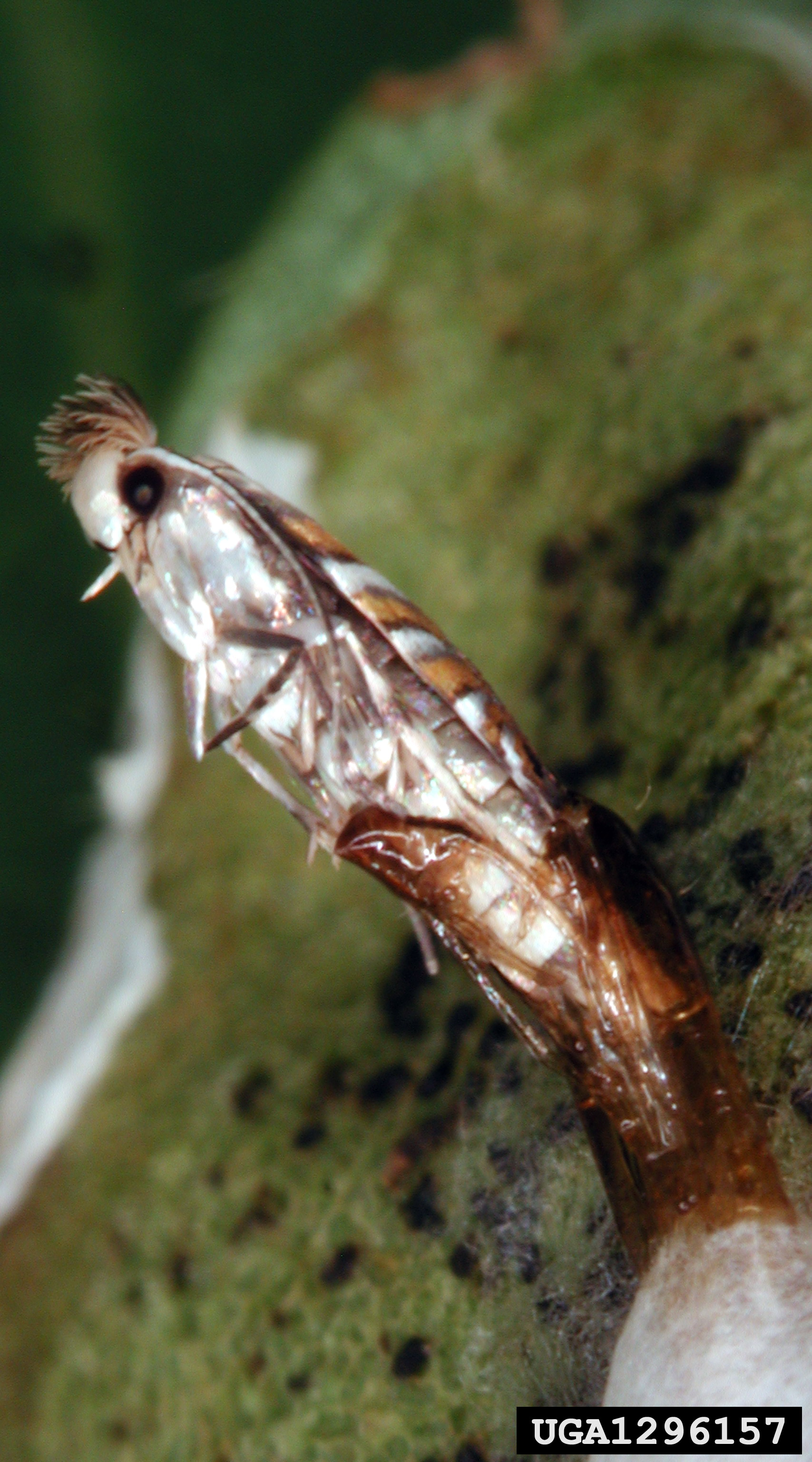 Phyllonorycter robiniella